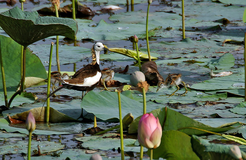 Pheasant-tailed Jacana Hydrophasianus chirurgus in Hyderabad , India.